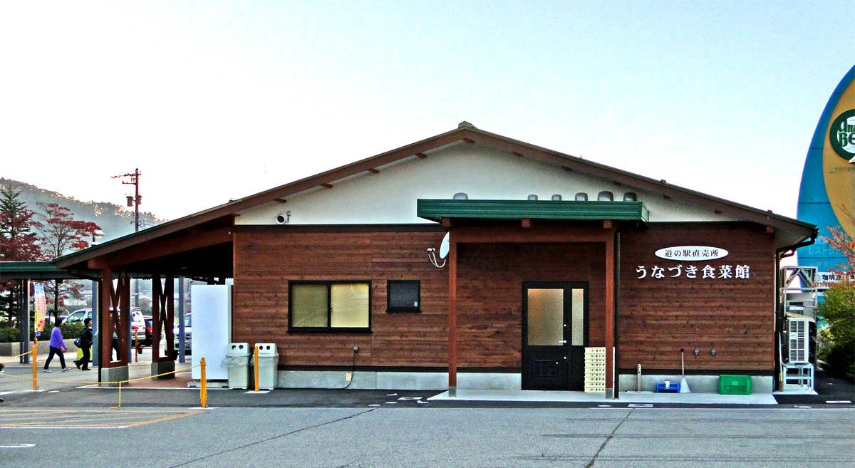 Local products store Unazuki Shokusaikan at Michinoeki Unazuki in Kurobe City, Toyama Prefecture, Japan